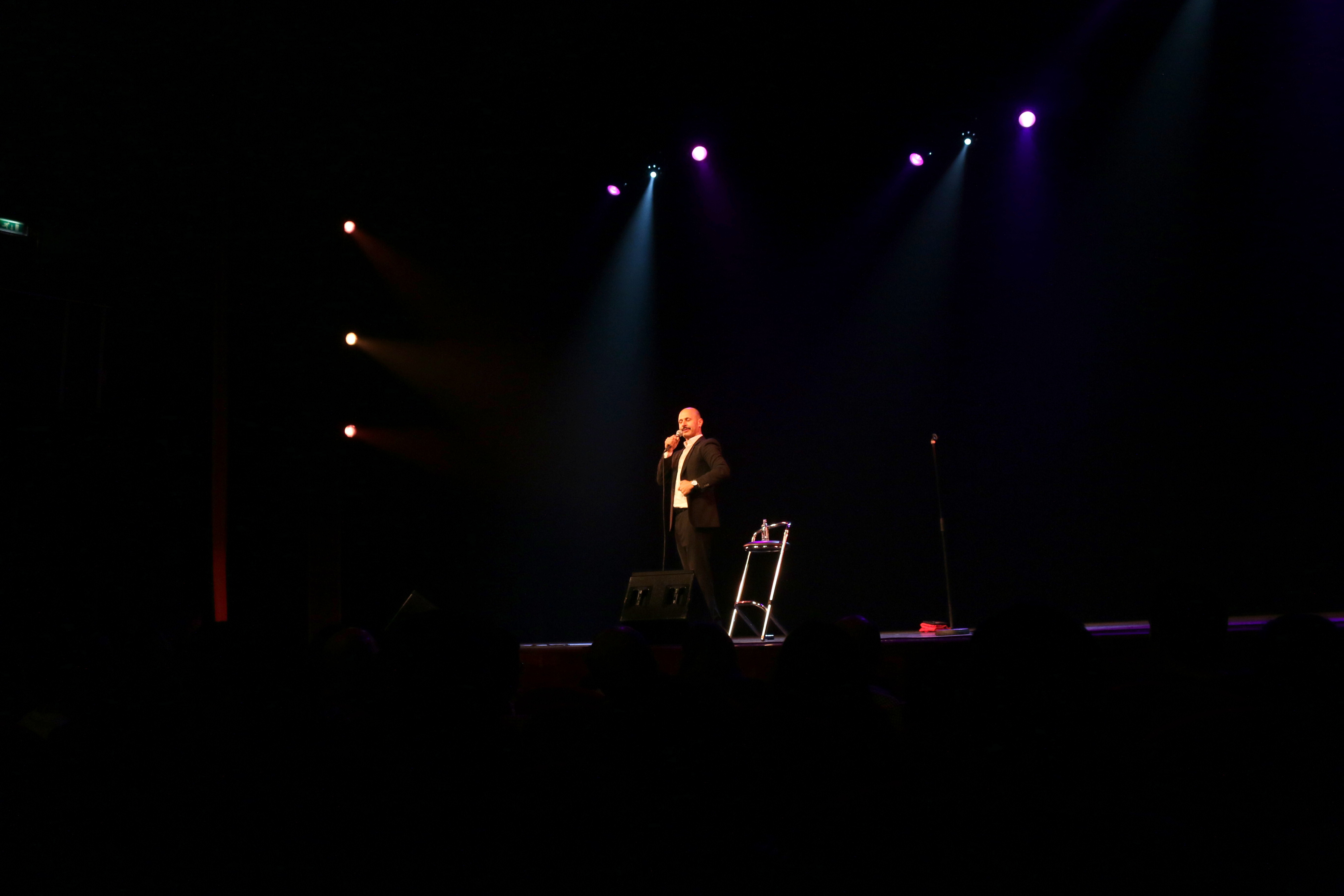 Maz (Maziar) Jobrani, Persian American Comedian in his Amsterdam show. (De Meervaart Theater, 6 May 2014) - Photo: Persian Dutch Network